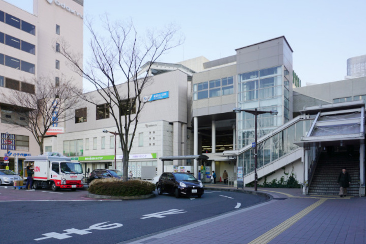 The north side of Shin-Yurigaoka Station in Kanagawa Prefecture, Japan